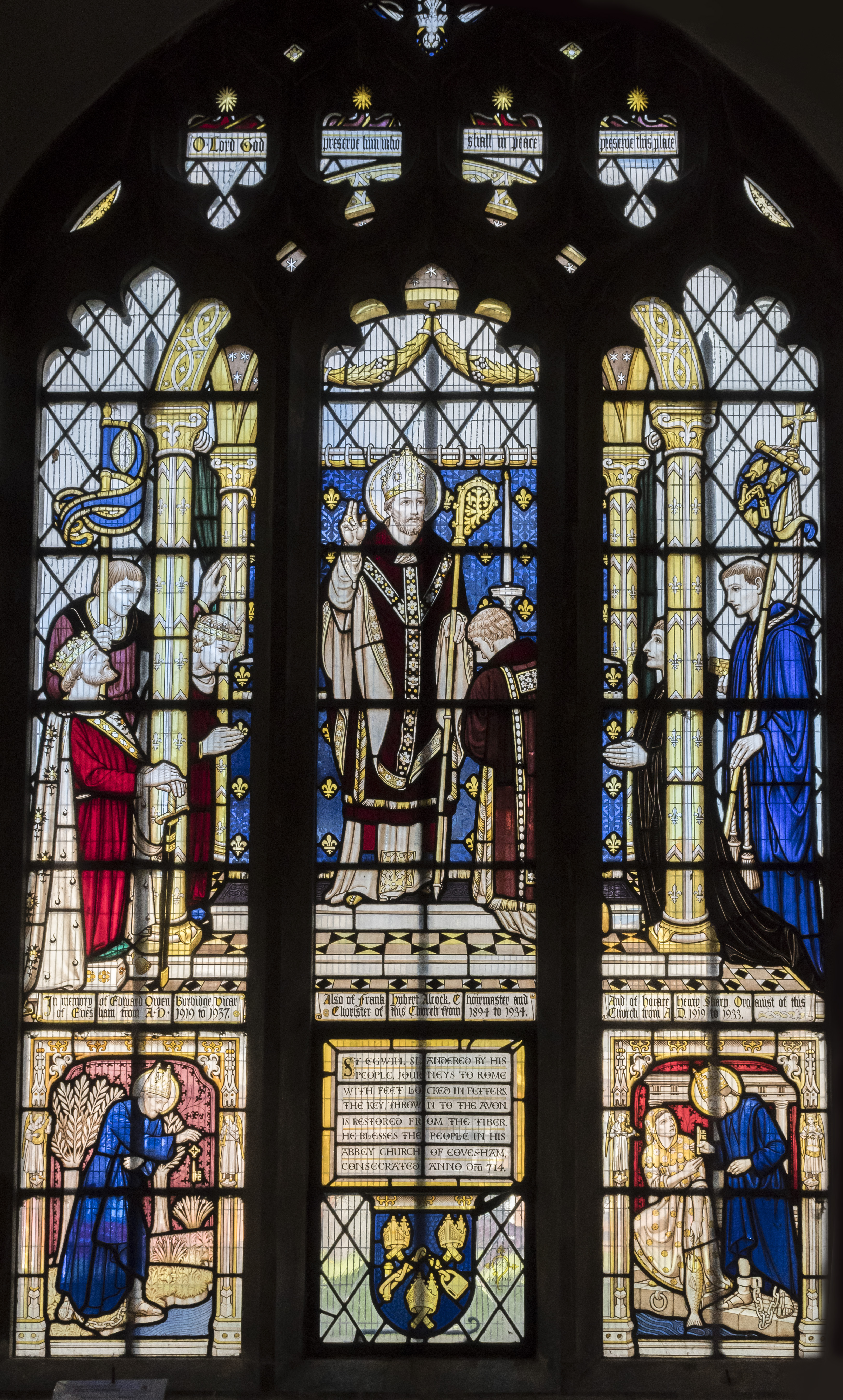 The window depicts the story of St Egwin, Bishop of Worcester, circa 700. He went on a pilgrimage to Rome, and prepared for his journey by locking shackles on his feet, throwing the key into the River Avon as he departed. Whilst he was praying in Rome one of his servants bought him fish to eat, and on preparing the fish the key he had thrown in the River Avon was found and he released himself. On his return to England, he founded Evesham Abbey. The glass is by Geoffrey Webb from 1943.